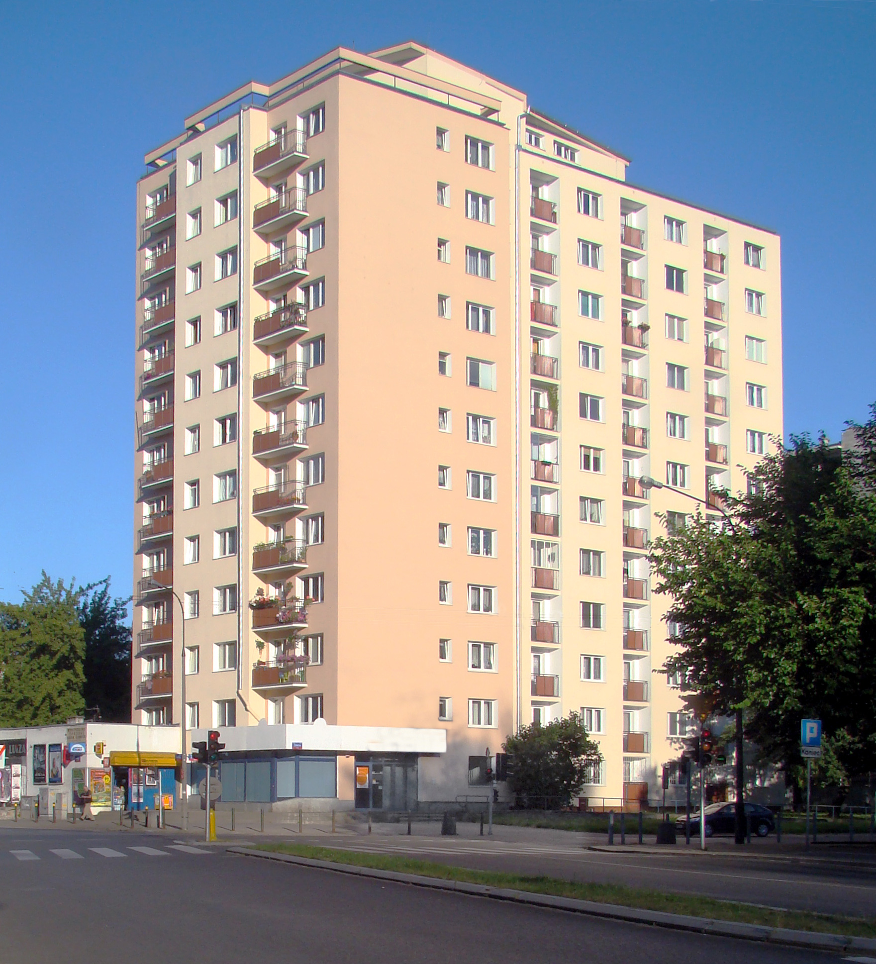 Warsaw, 54 Twarda Street, corner of Żelazna Street